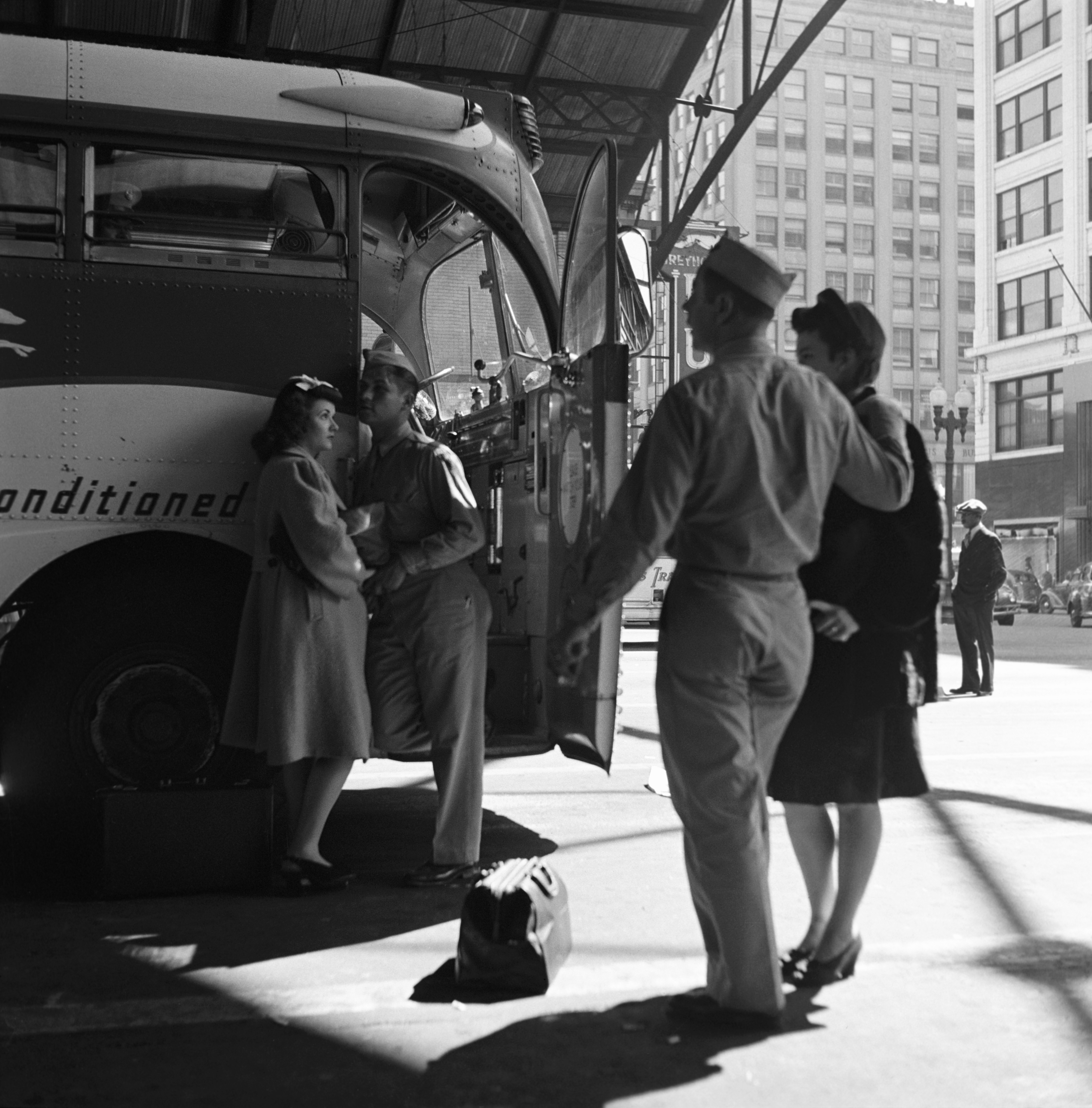 Photo of two couples in front of a bus. Caption: "Indianapolis, Indiana. Soldiers with their girls in front of the Greyhound bus."